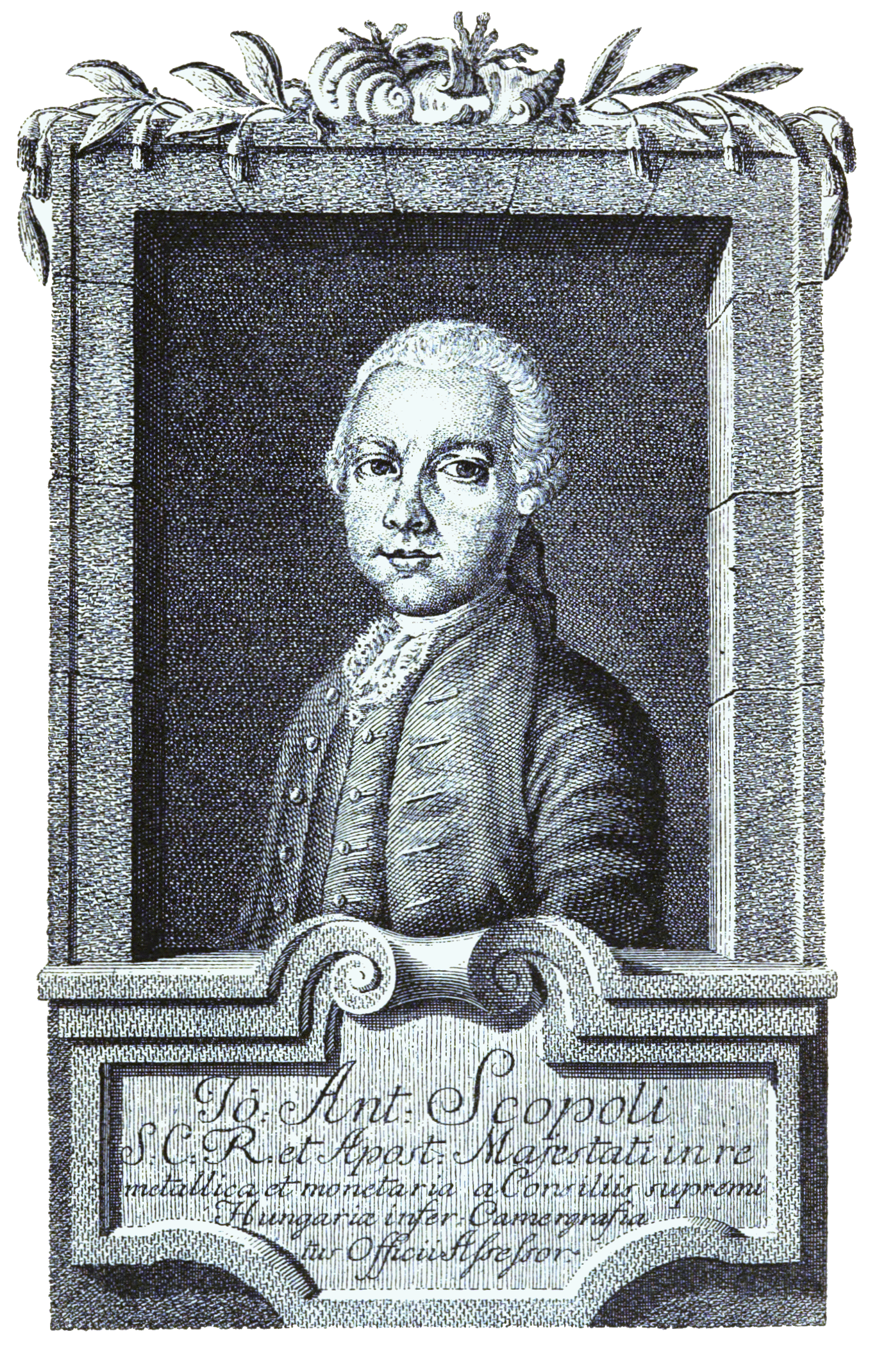 Giovanni Antonio Scopoli (1723–1788), Italian-Austrian physician, mineral collector and botanist